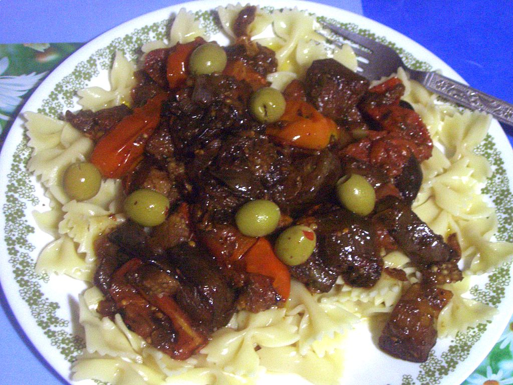 Caponata with pasta. Ingredients: dried oregano, garlic, onion, olive oil and aceto. Original recipe by Jamie Oliver, but adapted from Lulu's description (